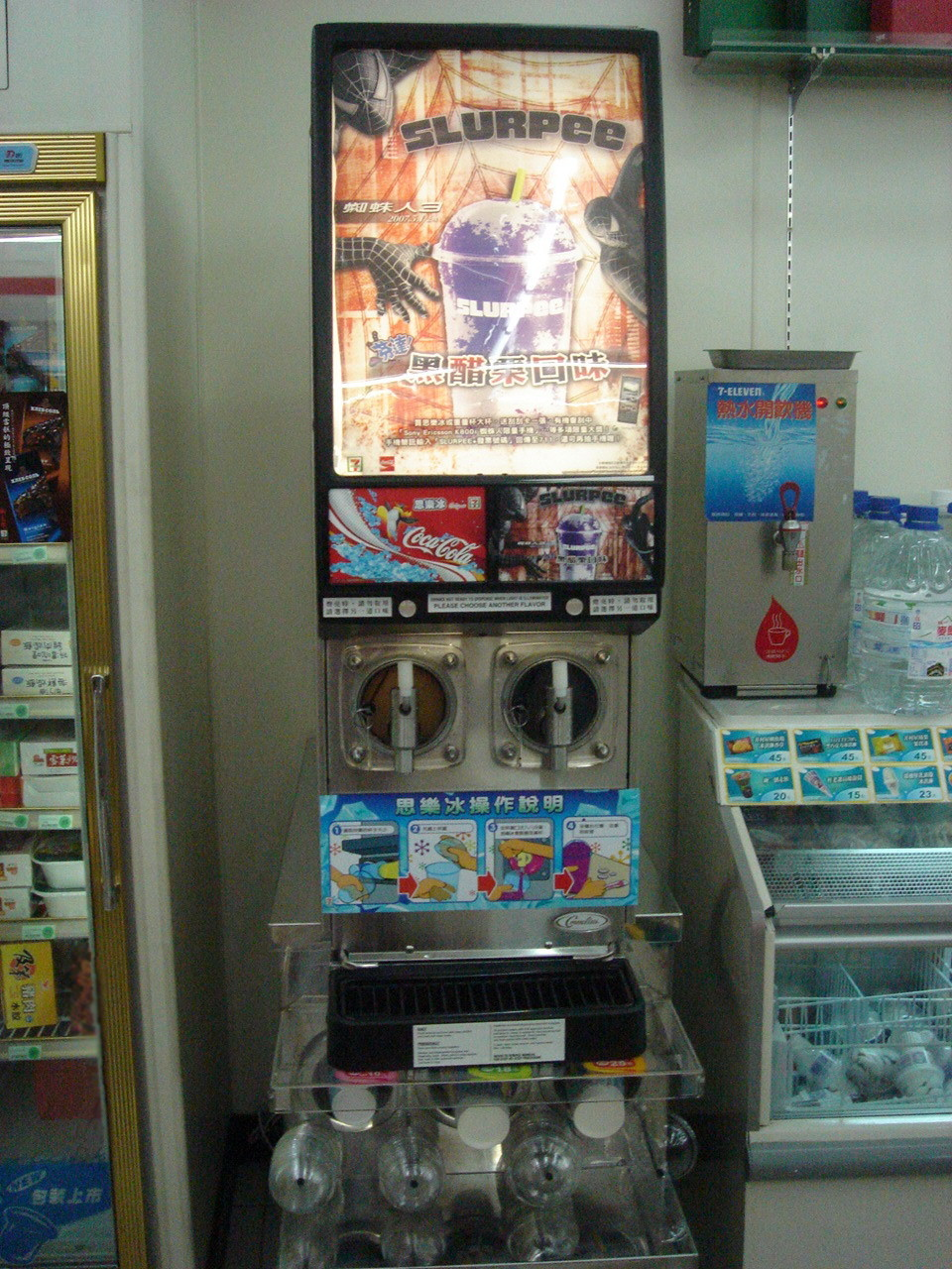 A Slurpee Machine in Taiwanese 7-eleven.